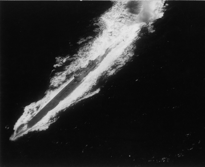 Taken from the tunnel hatch just after the second attack - spray from depth bomb is subsiding in the wake